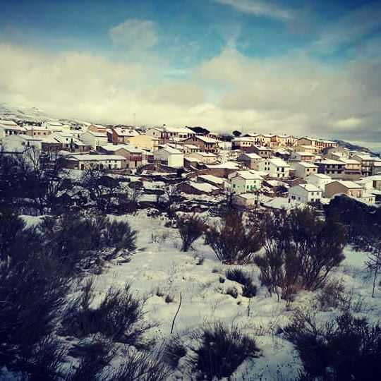 Navaquesera con nieve